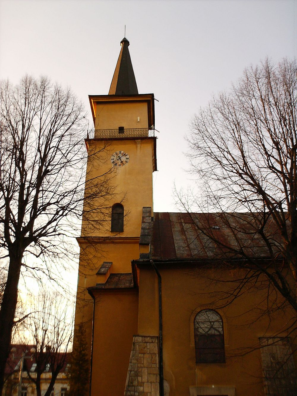 Kostol sv Mikulasa v Starej Lubovni